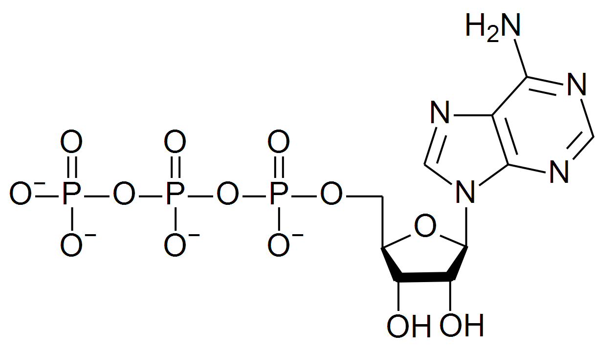 The chemical structure of adenosine triphosphate. Revised, non-SVG version, as the SVG version misaligned if the resolution was not exactly right. The original file can be found at